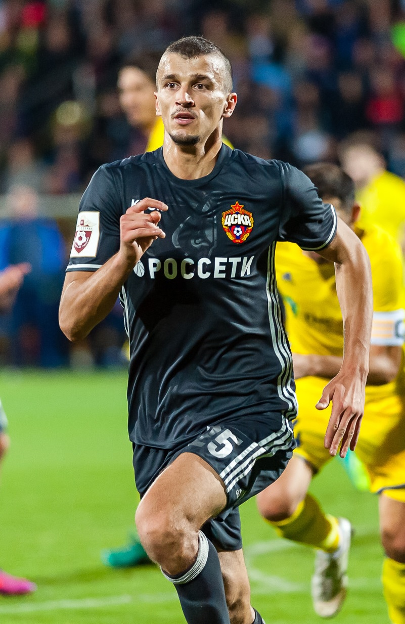 Roman Eremenko playing for PFC CSKA Moscow in a game against FC Rostov.